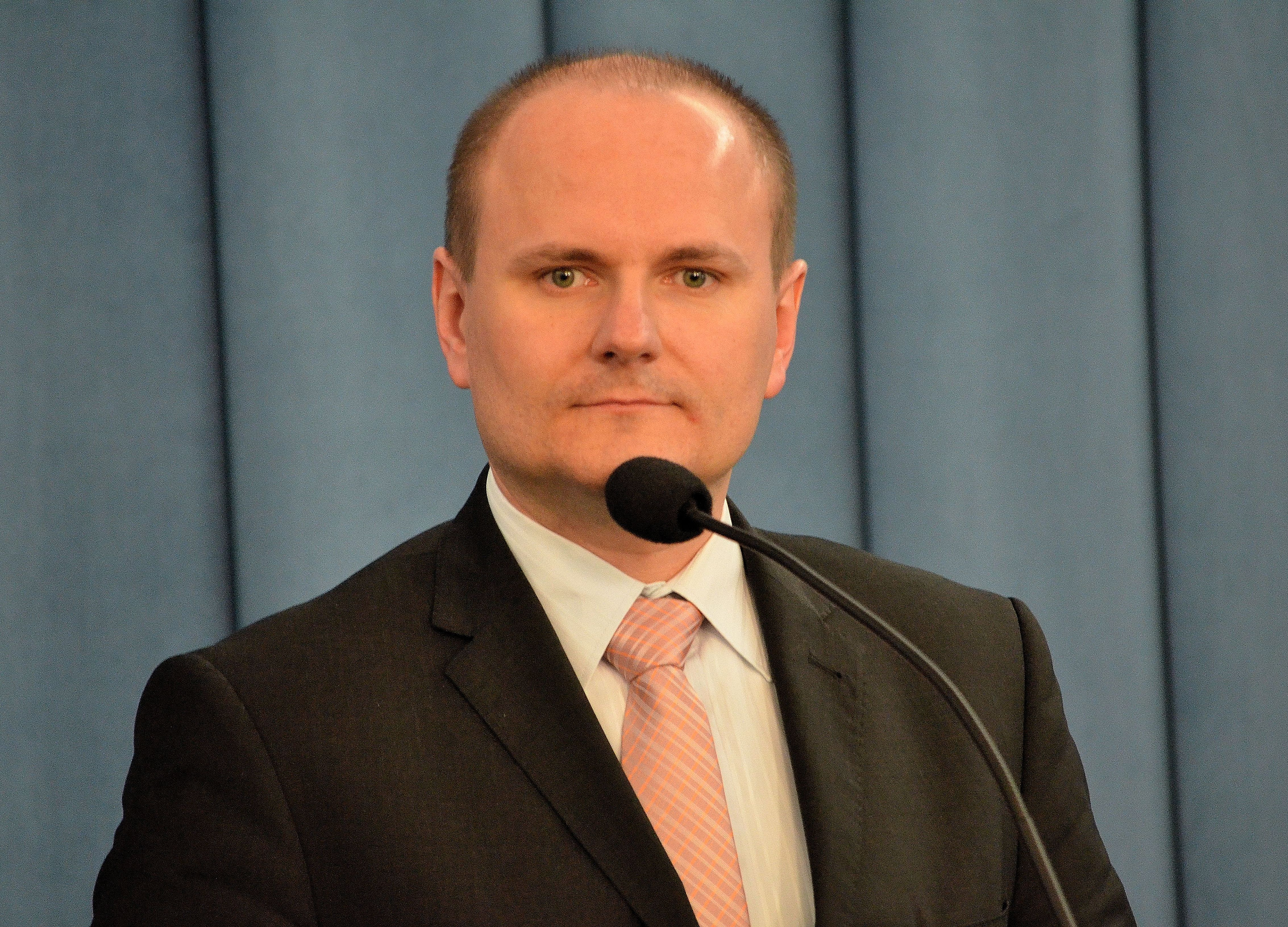 Polish MP Dariusz Dziadzio